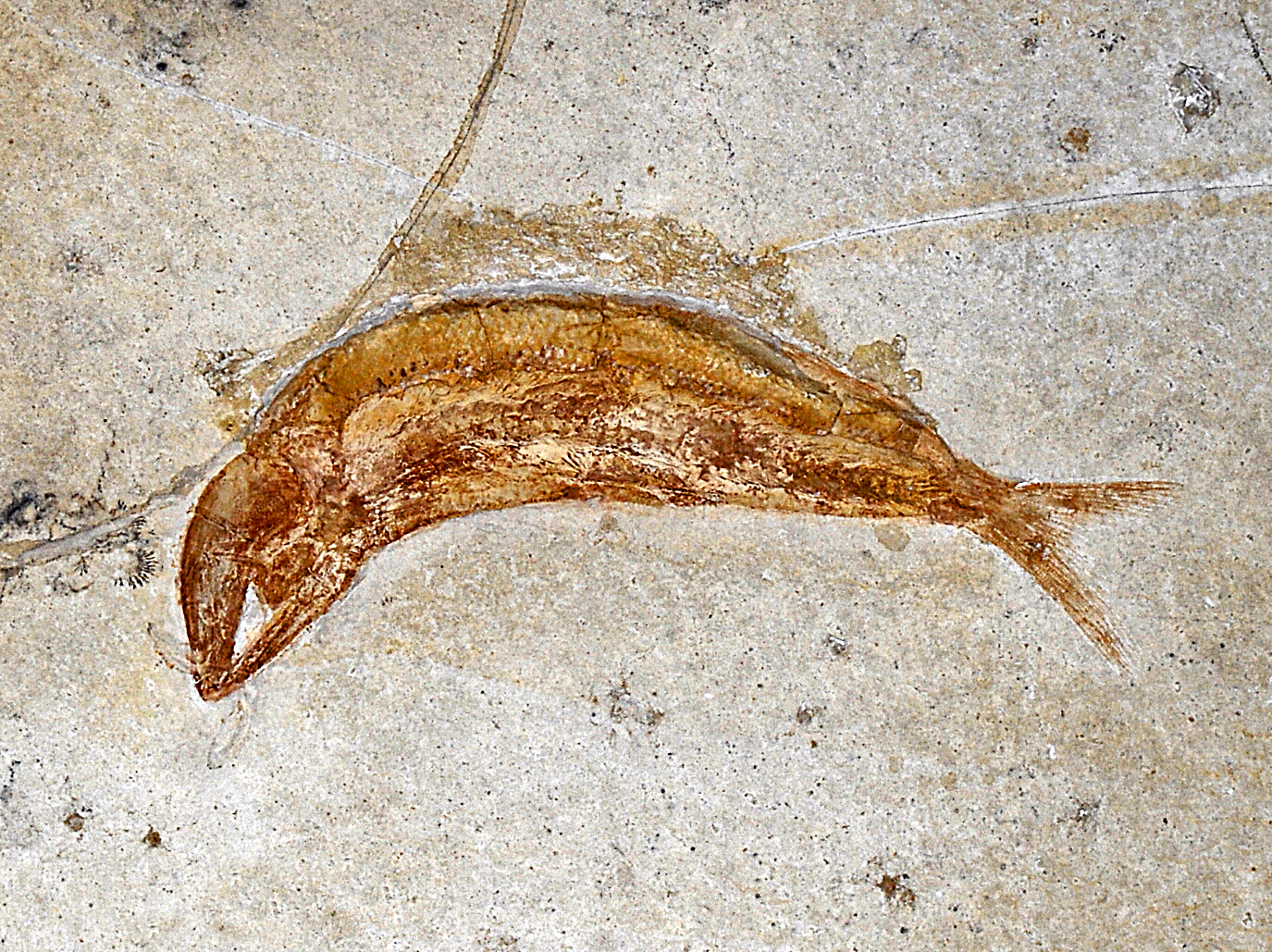 Leptolepis knorri, from Solnhofen (Germany). Jurassic